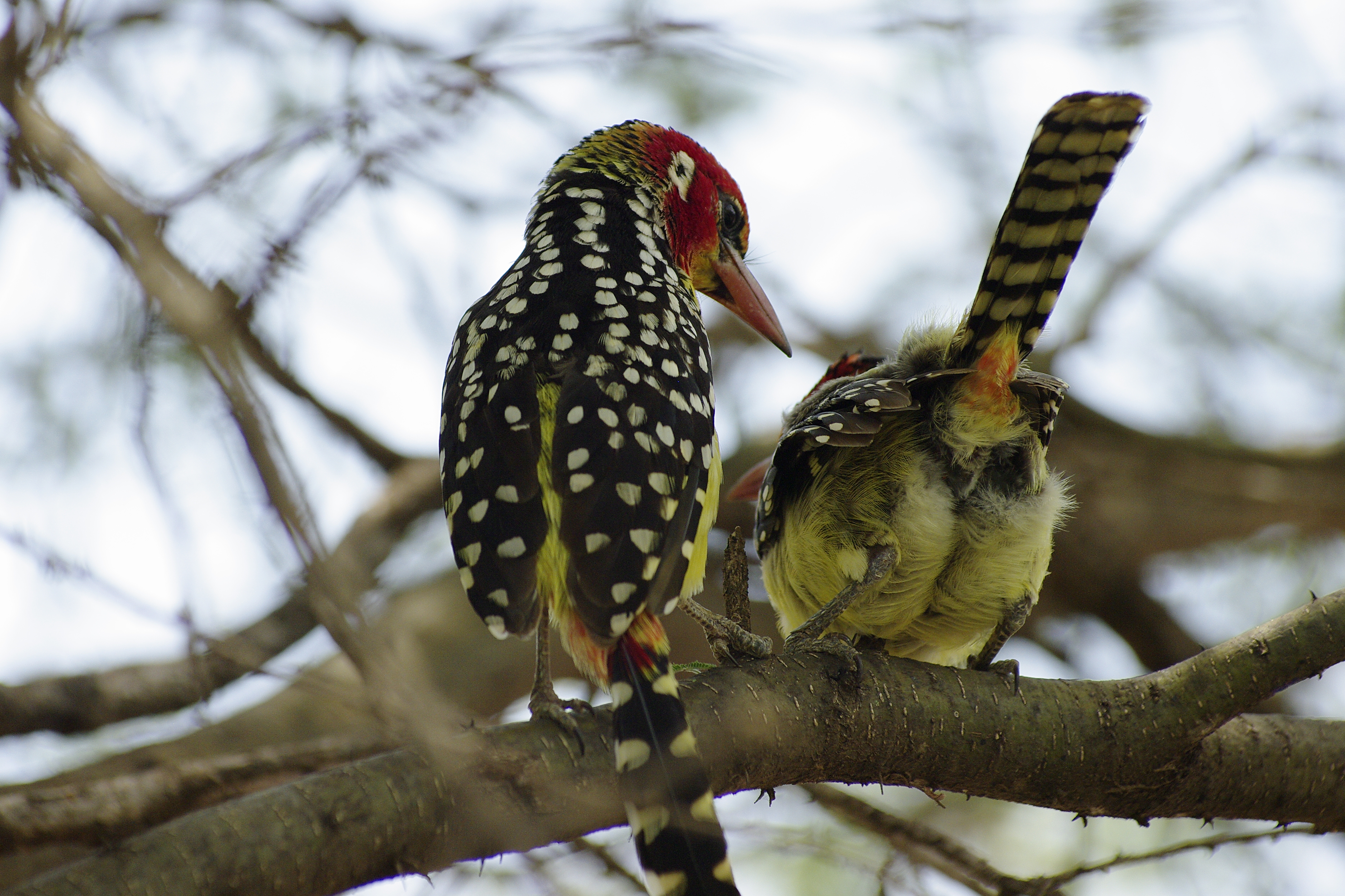 A pair of Red-and-yellow Barbet (Trachyphonus erythrocephalus) photographed in Tanzania.